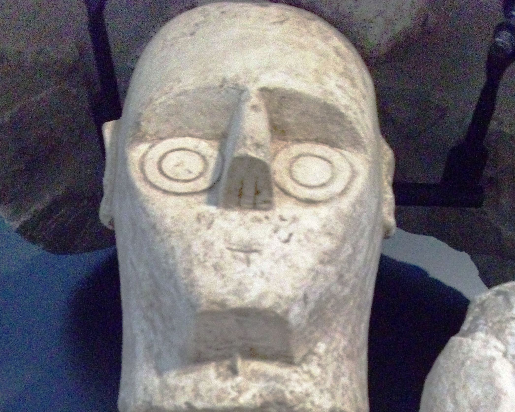 Sculpture, Giant of Monte Prama, boxer, Sinis, Sardinia, Italy, Nuragic civilization,archaeology, bronze age